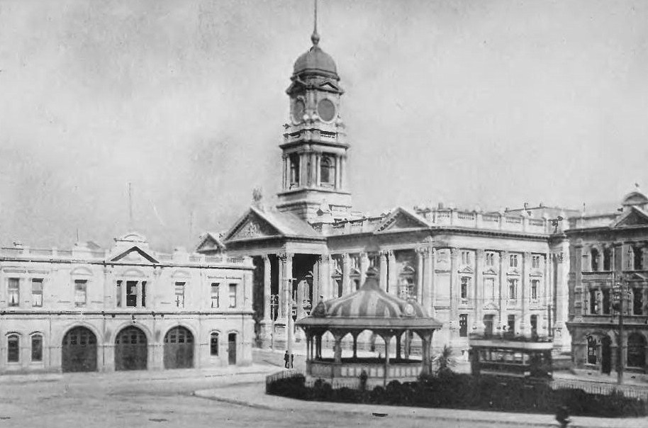 Town Hall, Wellington, New Zealand, Image from scanned PD book